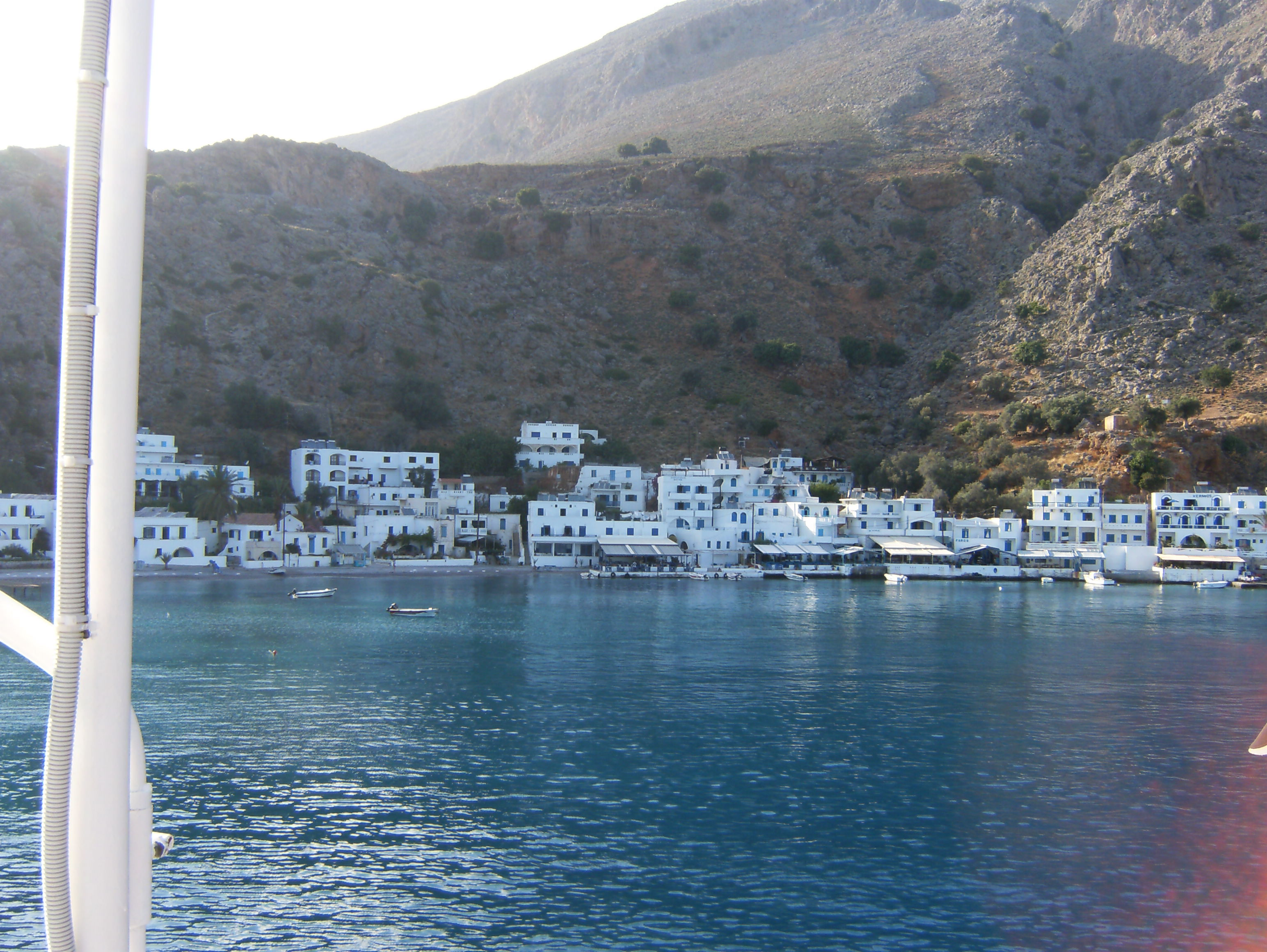 Loutron (in part) from sea, Crete.